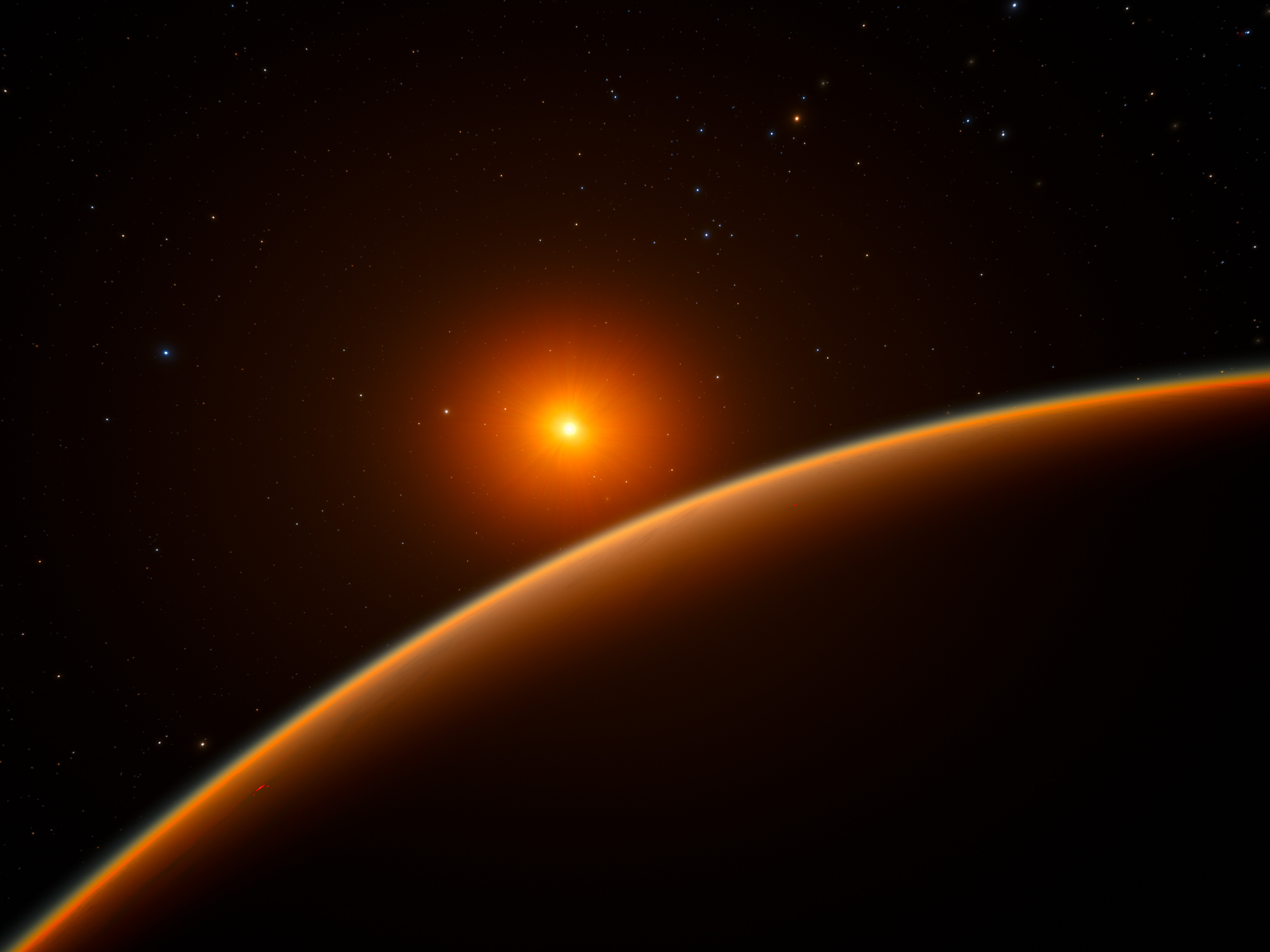 This artist’s impression shows the exoplanet LHS 1140b, which orbits a red dwarf star 40 light-years from Earth and may be the new holder of the title “best place to look for signs of life beyond the Solar System”. Using ESO’s HARPS instrument at La Silla, and other telescopes around the world, an international team of astronomers discovered this super-Earth orbiting in the habitable zone around the faint star LHS 1140. This world is a little larger and much more massive than the Earth and has likely retained most of its atmosphere.